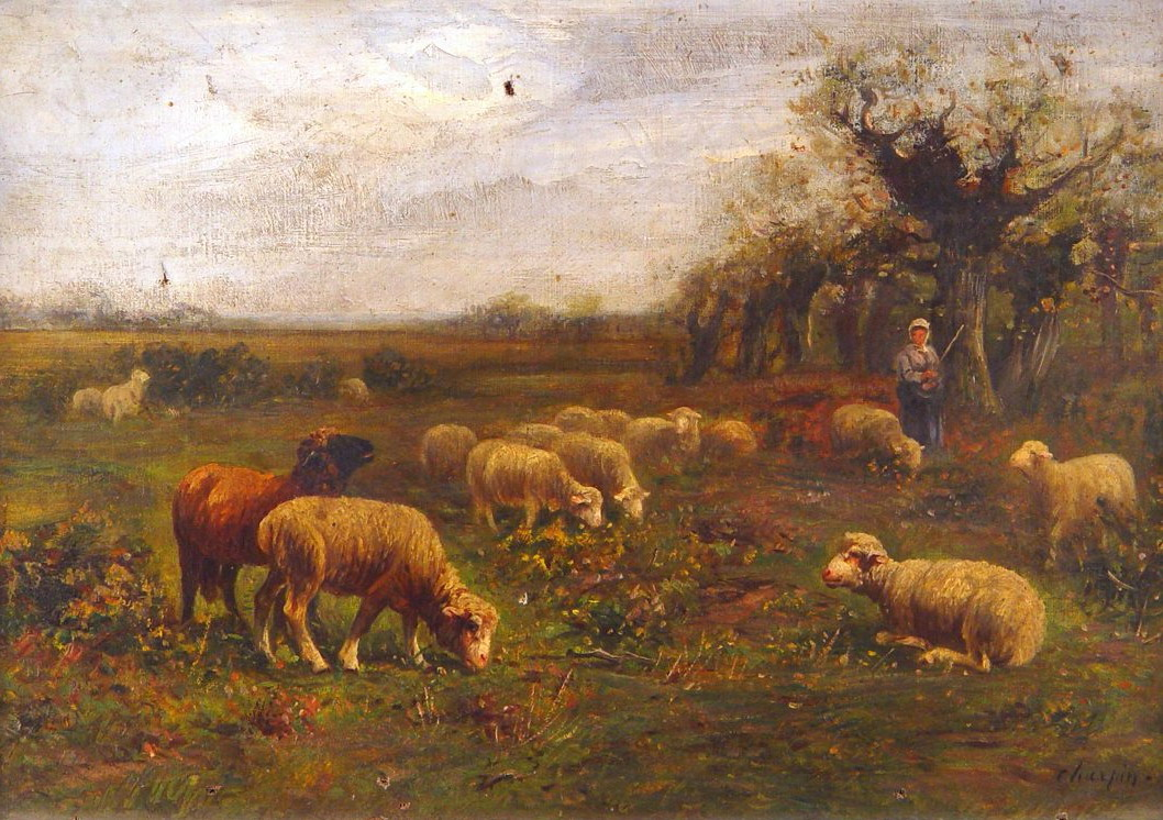 Charpin_Ovejas_Pastando.